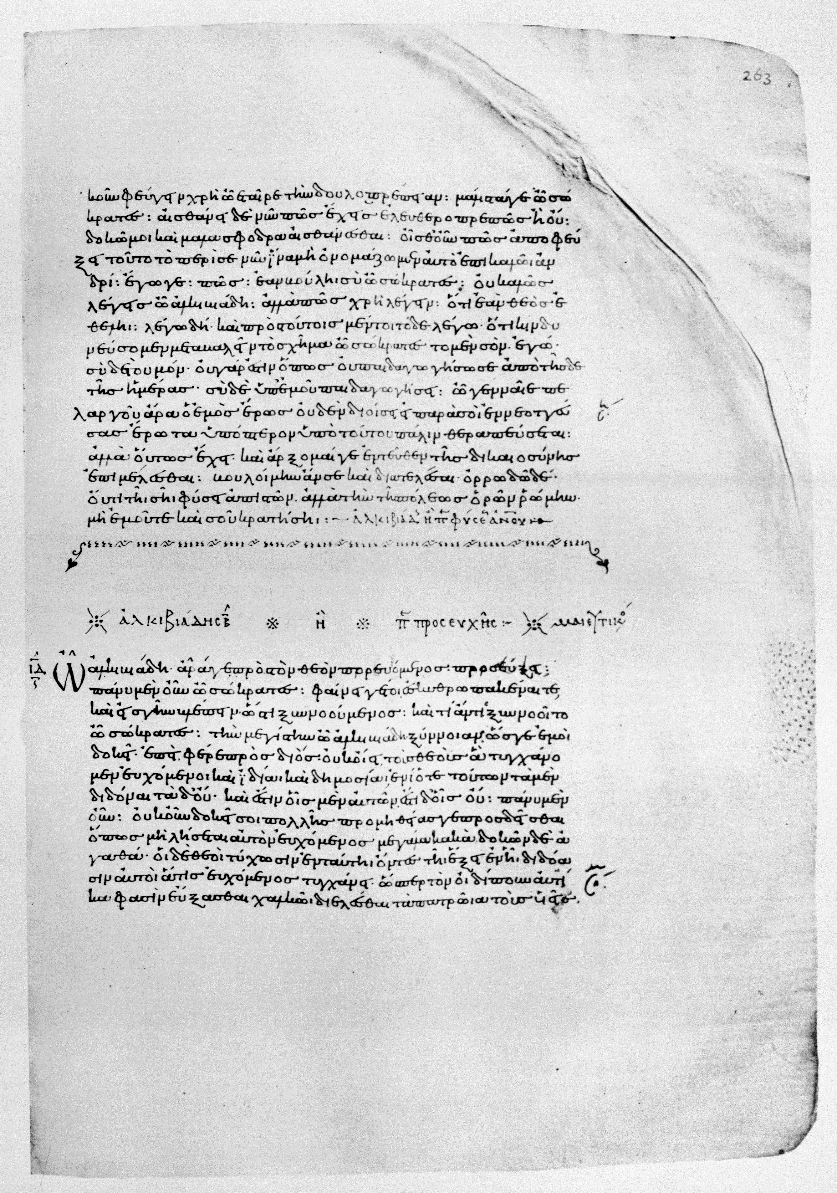 Page of the Codex Oxoniensis Clarkianus 39 (Clarke Plato). Dialogue Alkibiades B.